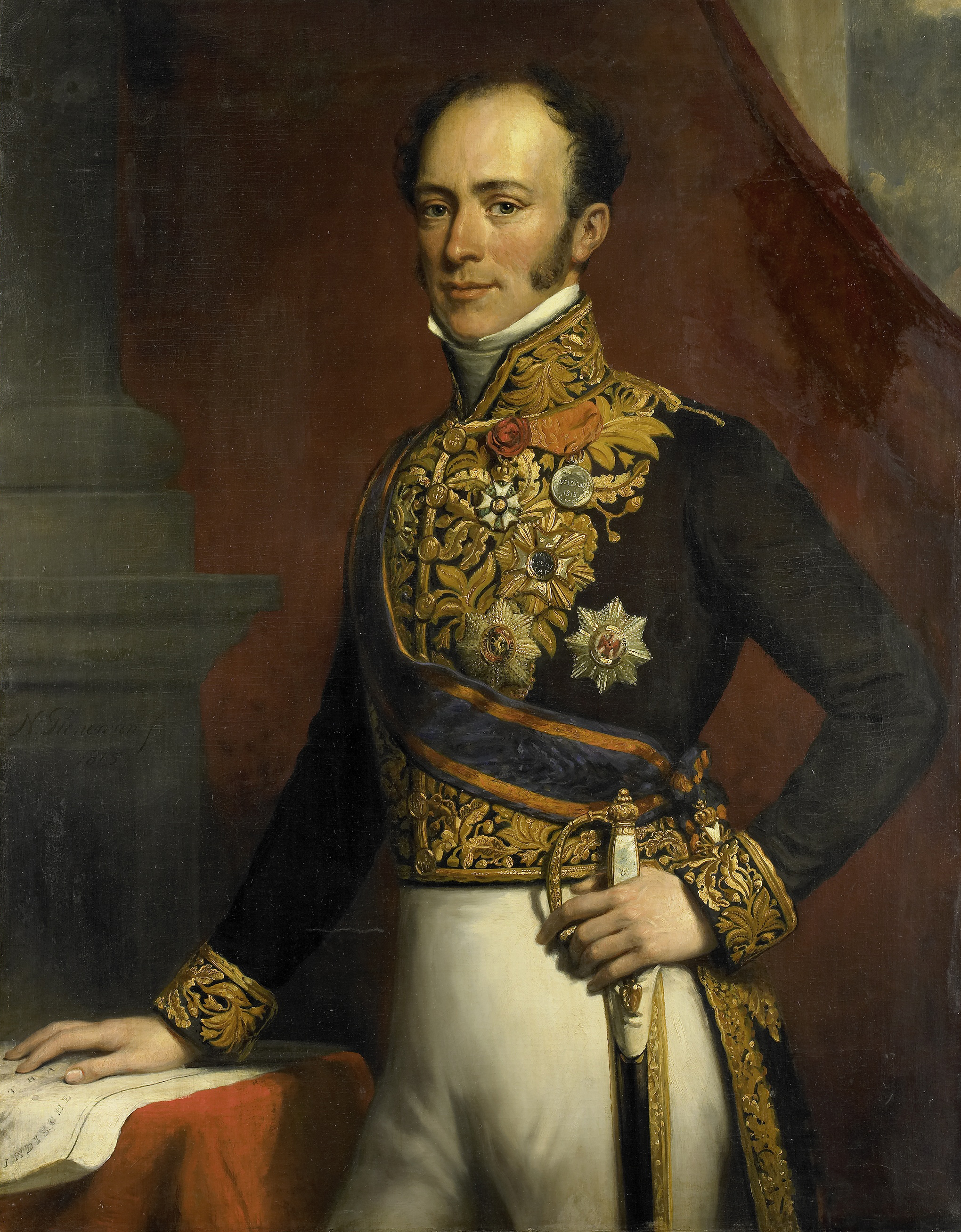 Portrait of Jan Jacob Rochussen (1797-1871), Governor-General of the Dutch East Indies from 1845 to 1851. Part of the Governors-general series.